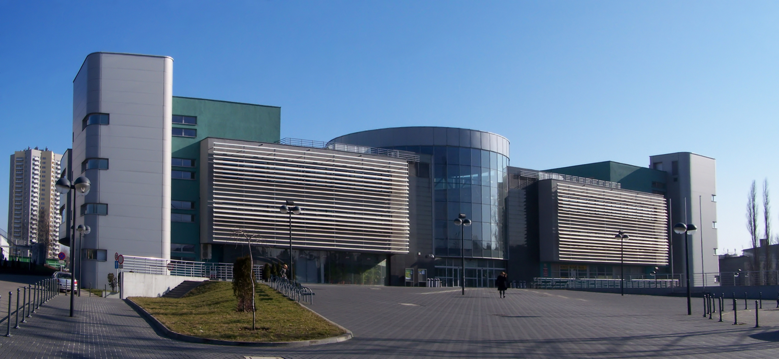 University of Silesia - Faculty of Law and Administration (Katowice, Poland).